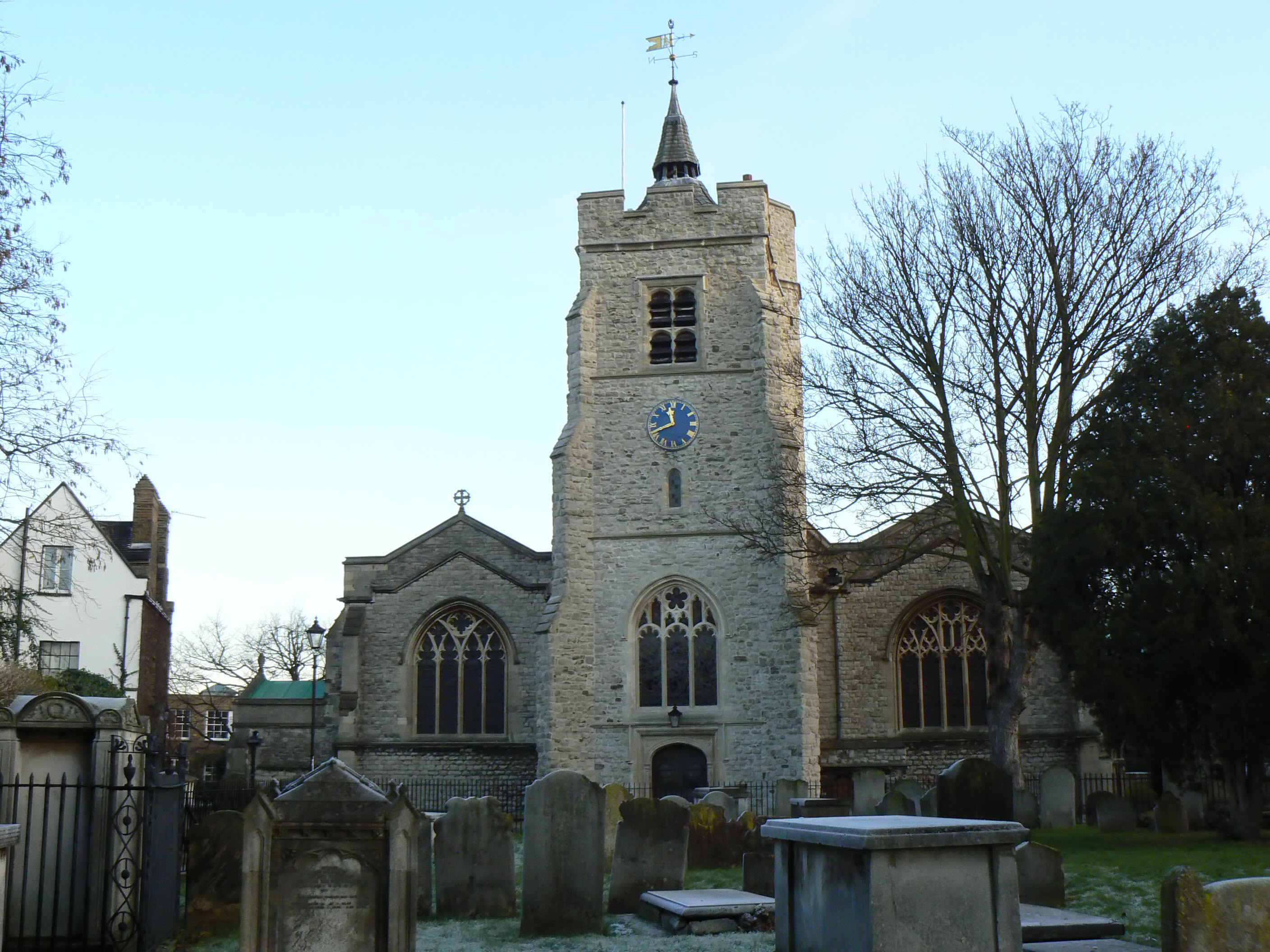 St Nicholas, Chiswick Parish Church, London W4, seen from Chiswick (Old) Churchyard. The tower is 15th century, the remainder being rebuilt between 1882 and 1884.